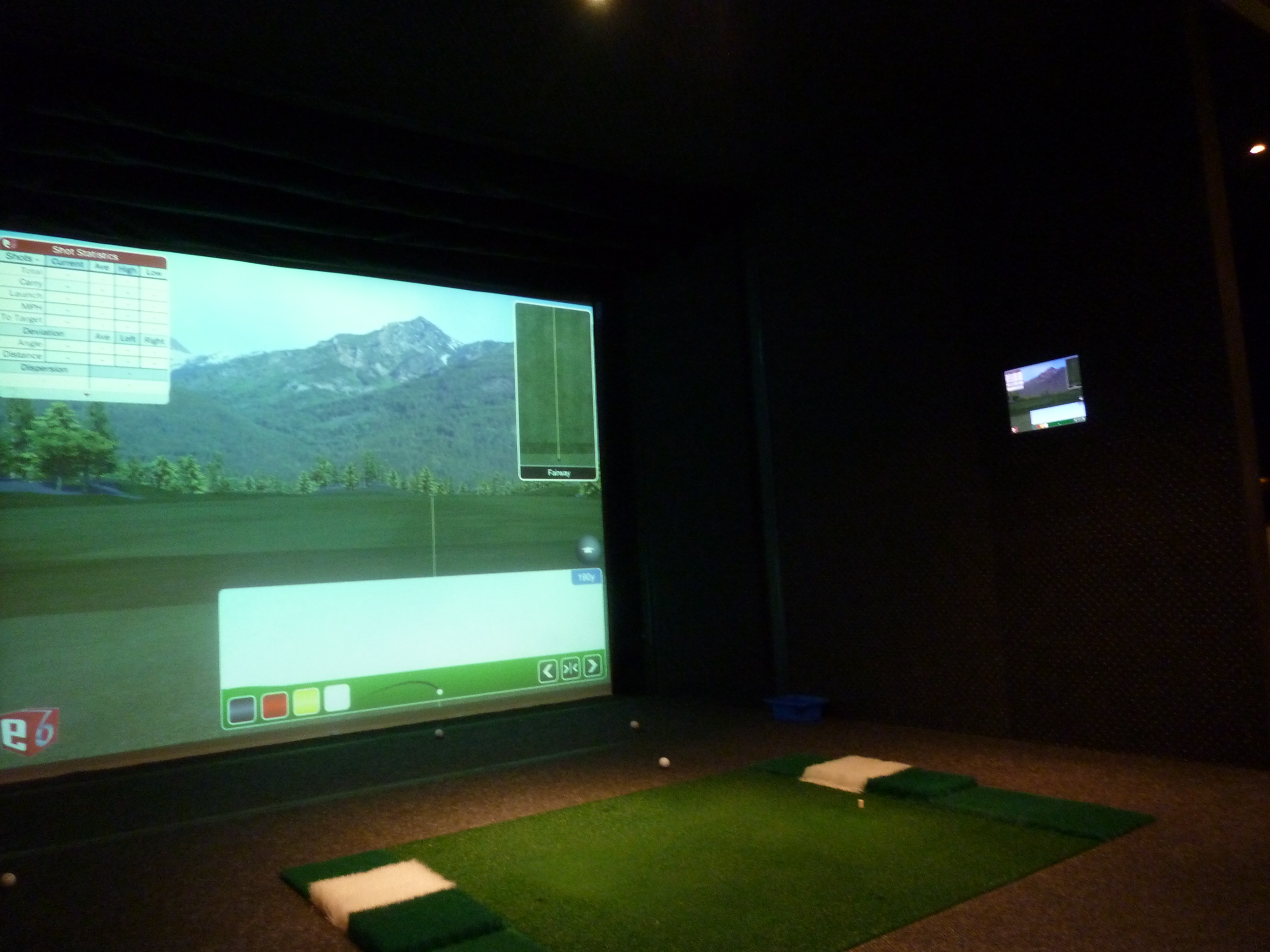 Indoor golf simulator